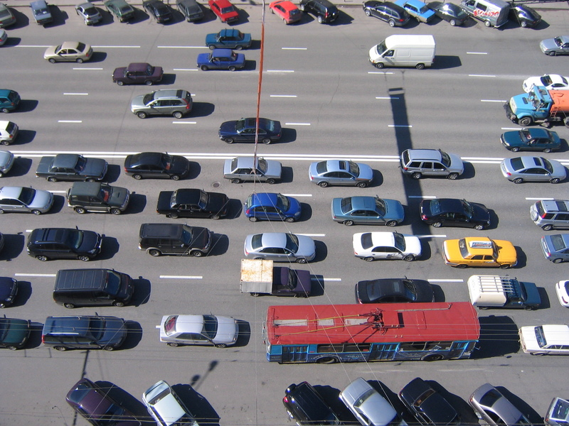 The Garden Ring orbital road in central Moscow, Russia. Near to Kursky Rail Terminal station, taken from the top of a tall building, looking downwards. Shows a large number of lanes of traffic with diagonally parked cars along the edge and wiring. Quite colourful!